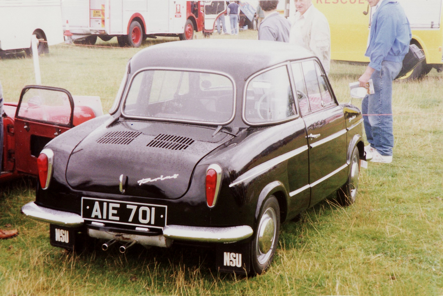 Spotted at Yeovil Festival of Transport, August 1991